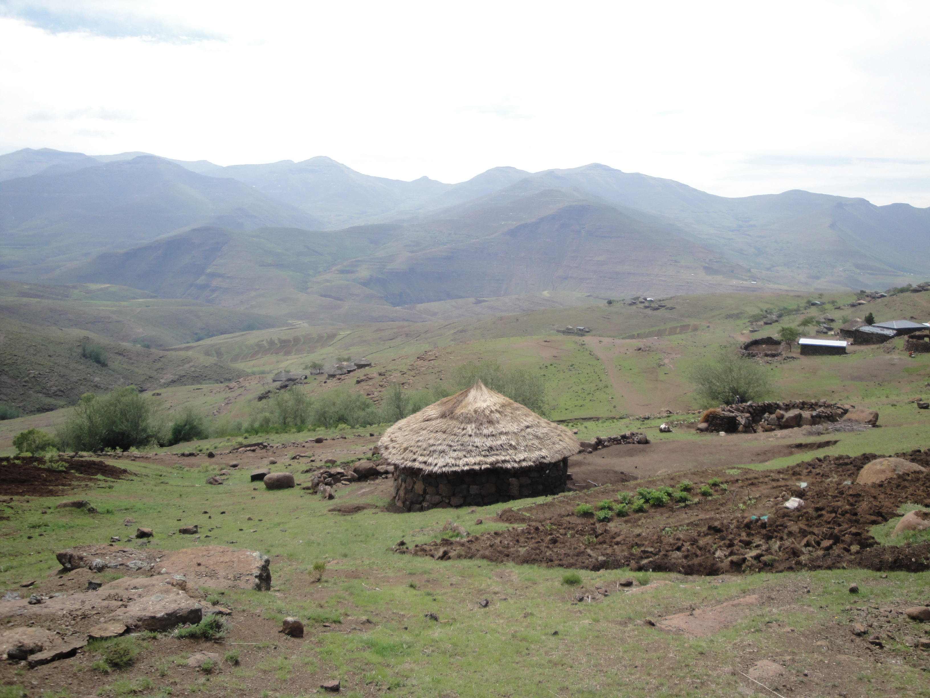 Sometimes accompanied by one or more of her children, Maamohelang walks two to three hours on the rough, often wet path to reach the Molikaliko Health Clinic. Her three eldest children also hike long distances to reach the mountain school that educates more than 150 children from several villages. Credit: Reverie Zurba/USAID.